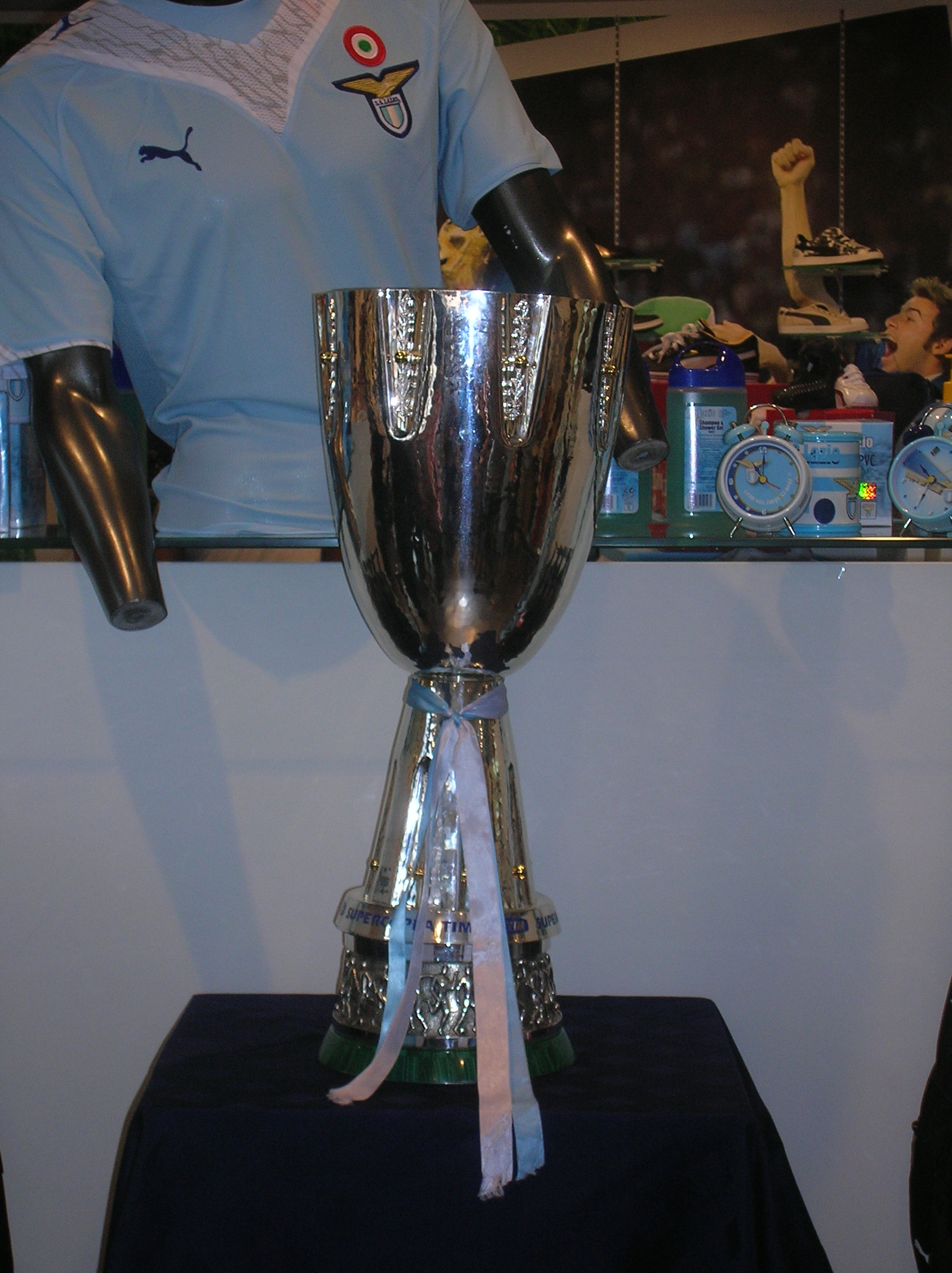 The Supercoppa Italiana trophy on display in a Lazio Store.